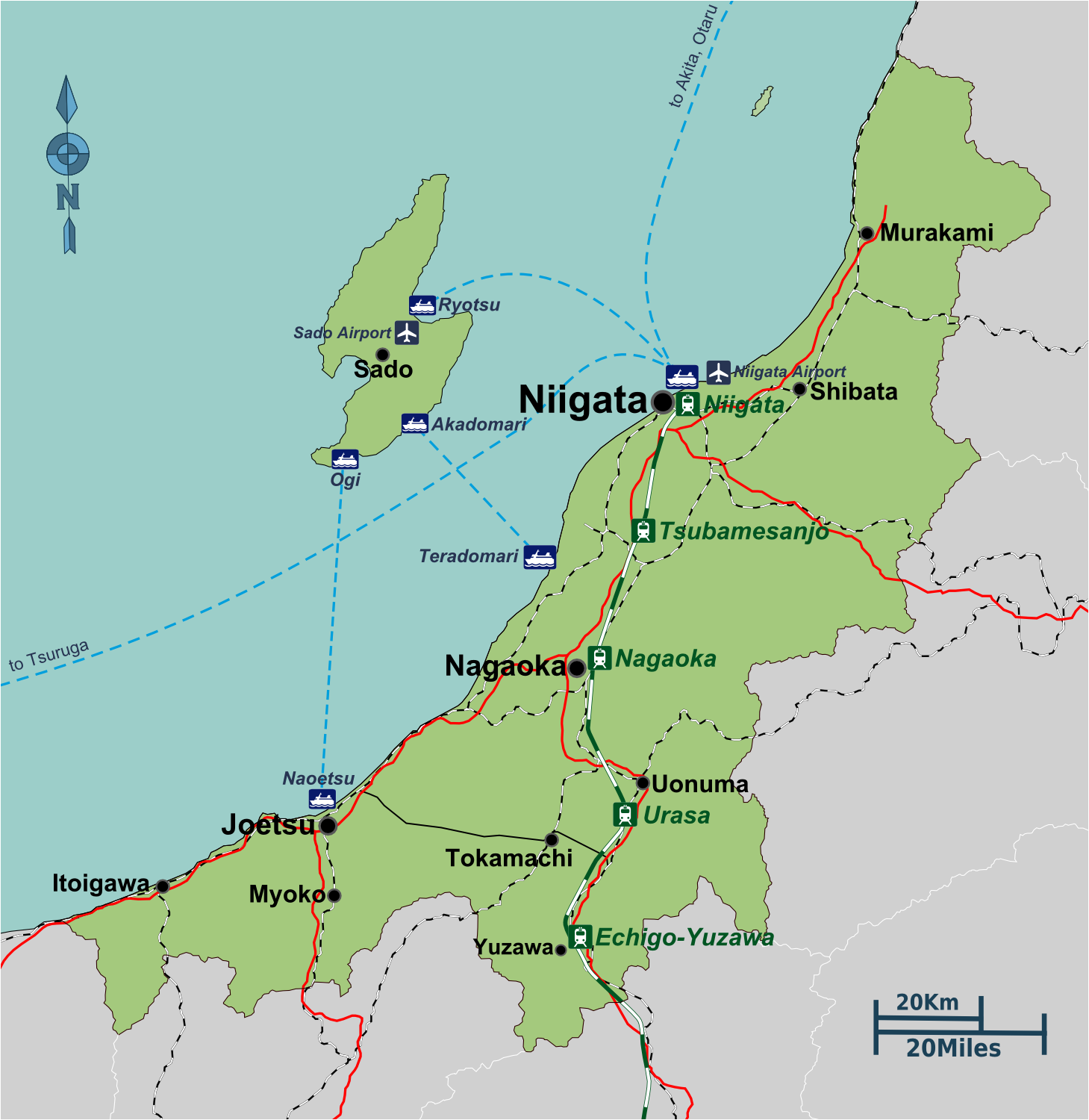 Map of Niigata Prefecuture, Niigata (prefecture).